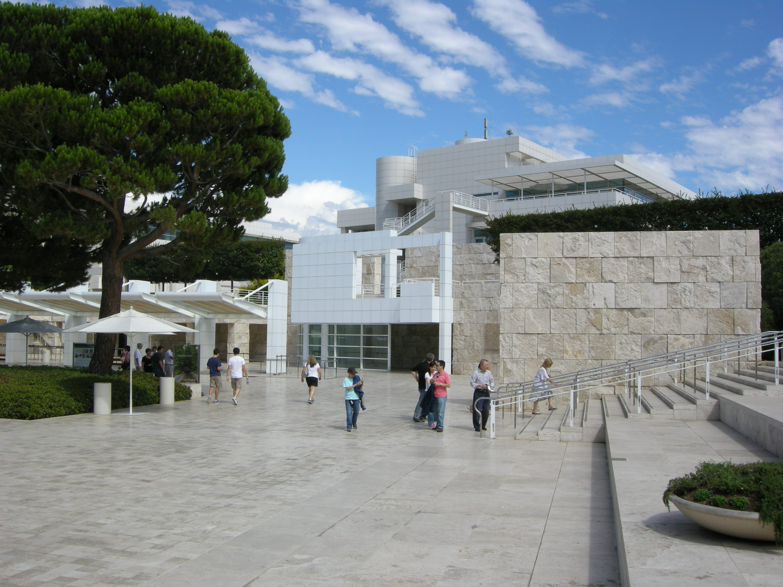 Getty Center - Building